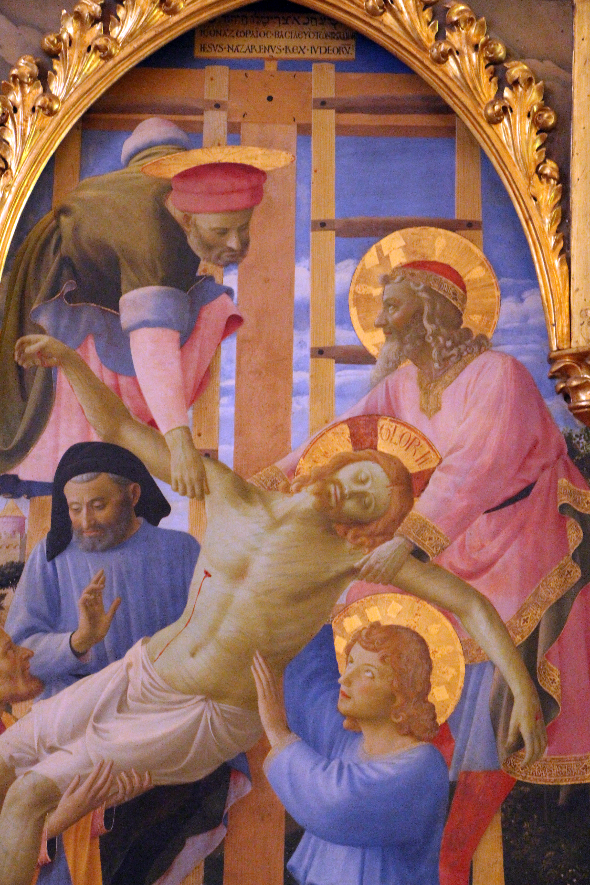 Descent from the Cross by Angelico